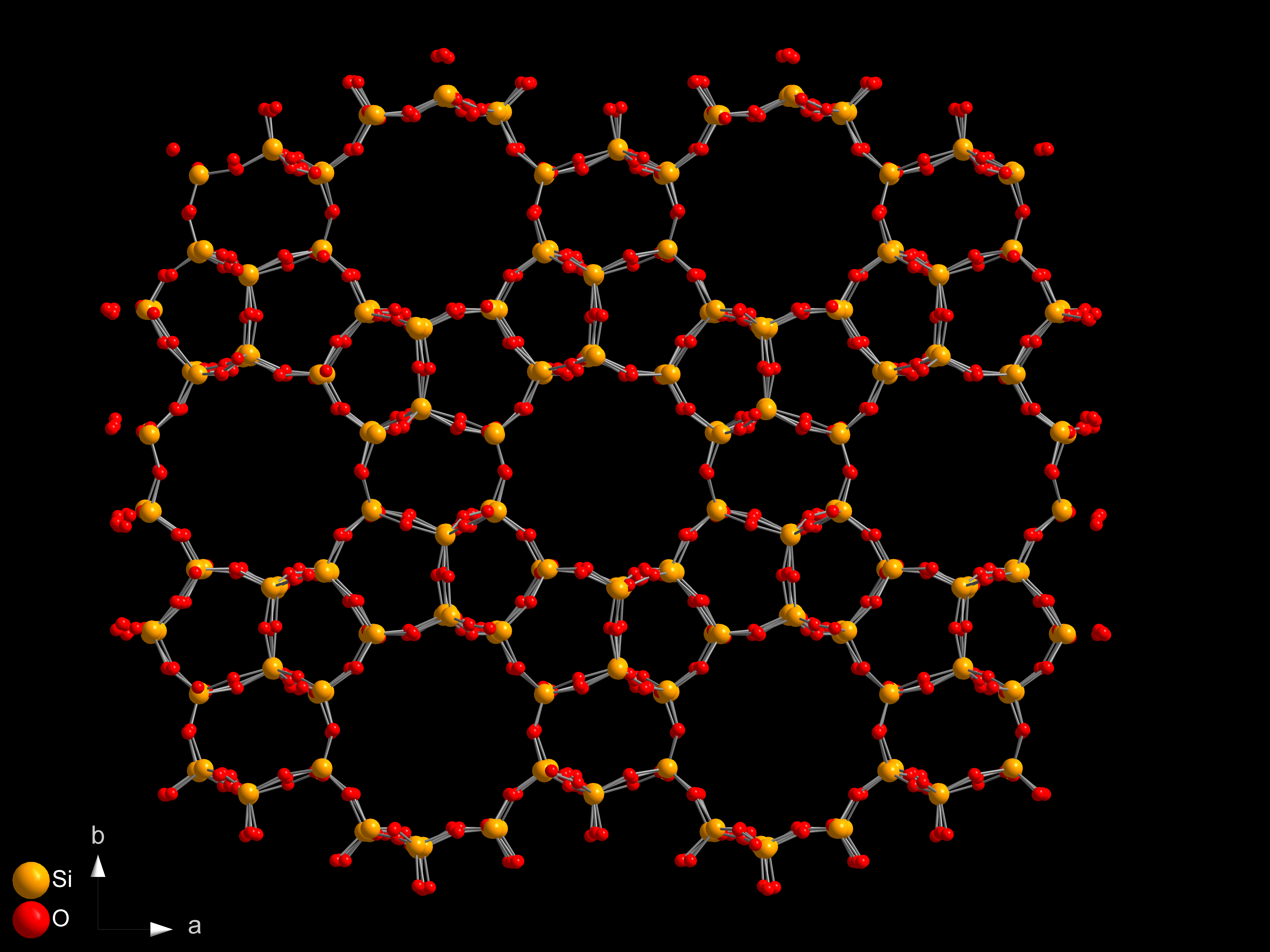 The molecular structure of ZSM-5 zeolite, showing well defined pores and channels in the zeolite. Yellow balls represent Si and red balls represent O.